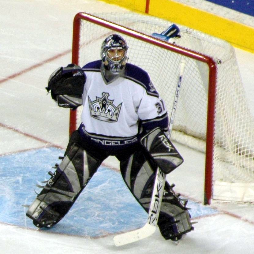 Mathieu Garon of the Los Angeles Kings, December 21, 2005